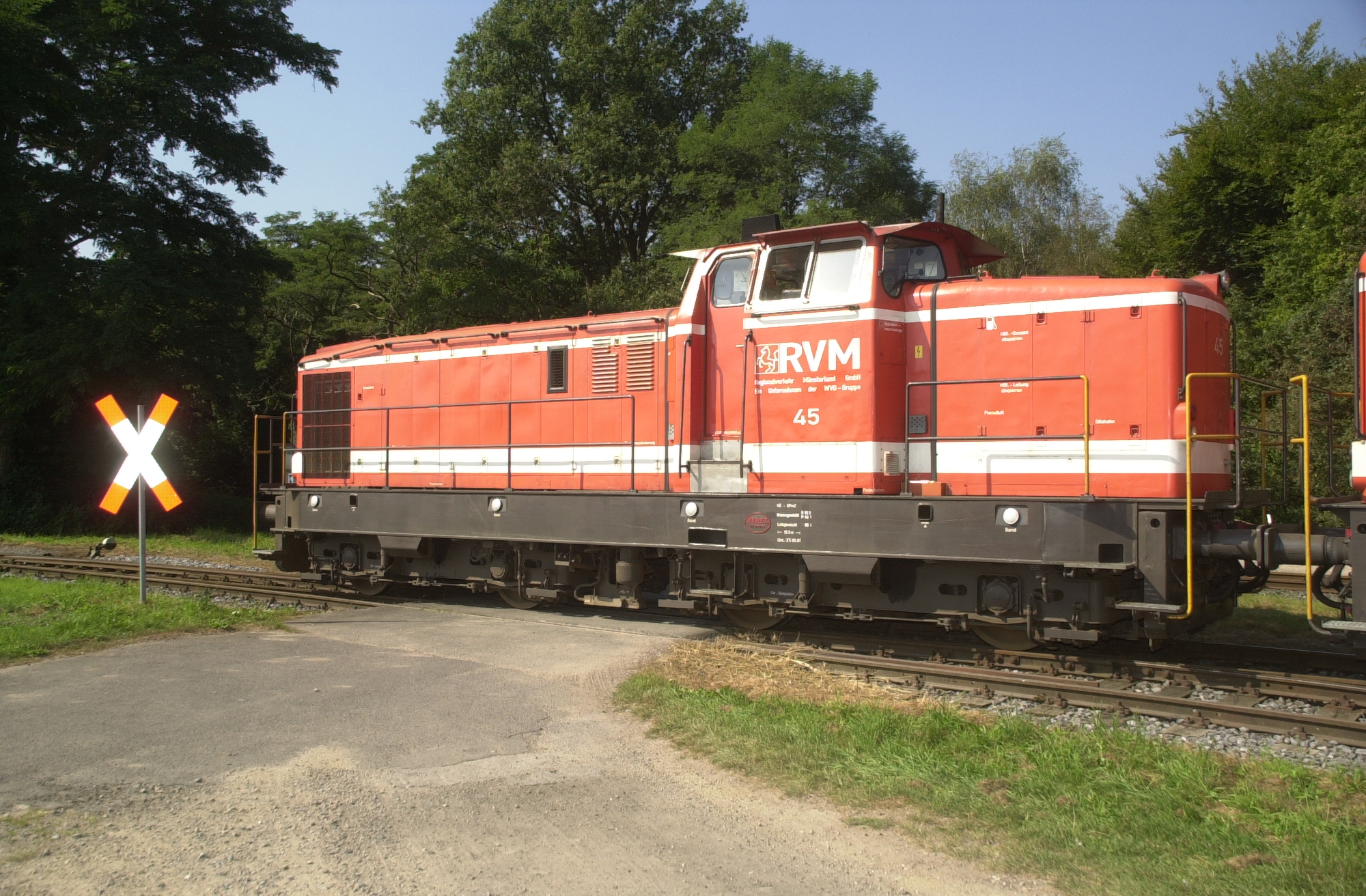 Railroad crossing in Rheine